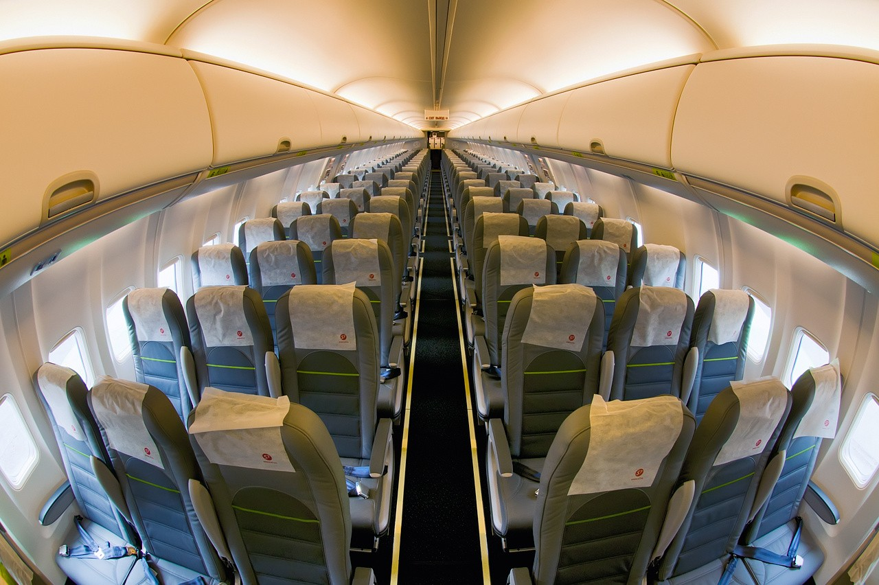 Boeing 737-8ZS S7 Airlines (VQ-BKW) Economy class